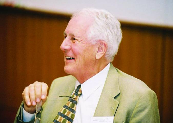 Woody Hastings